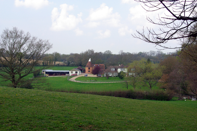 Reader's Bridge Not a bridge, probably taking its name from the nearby bridge where Reader's Bridge Lane crosses a brook.